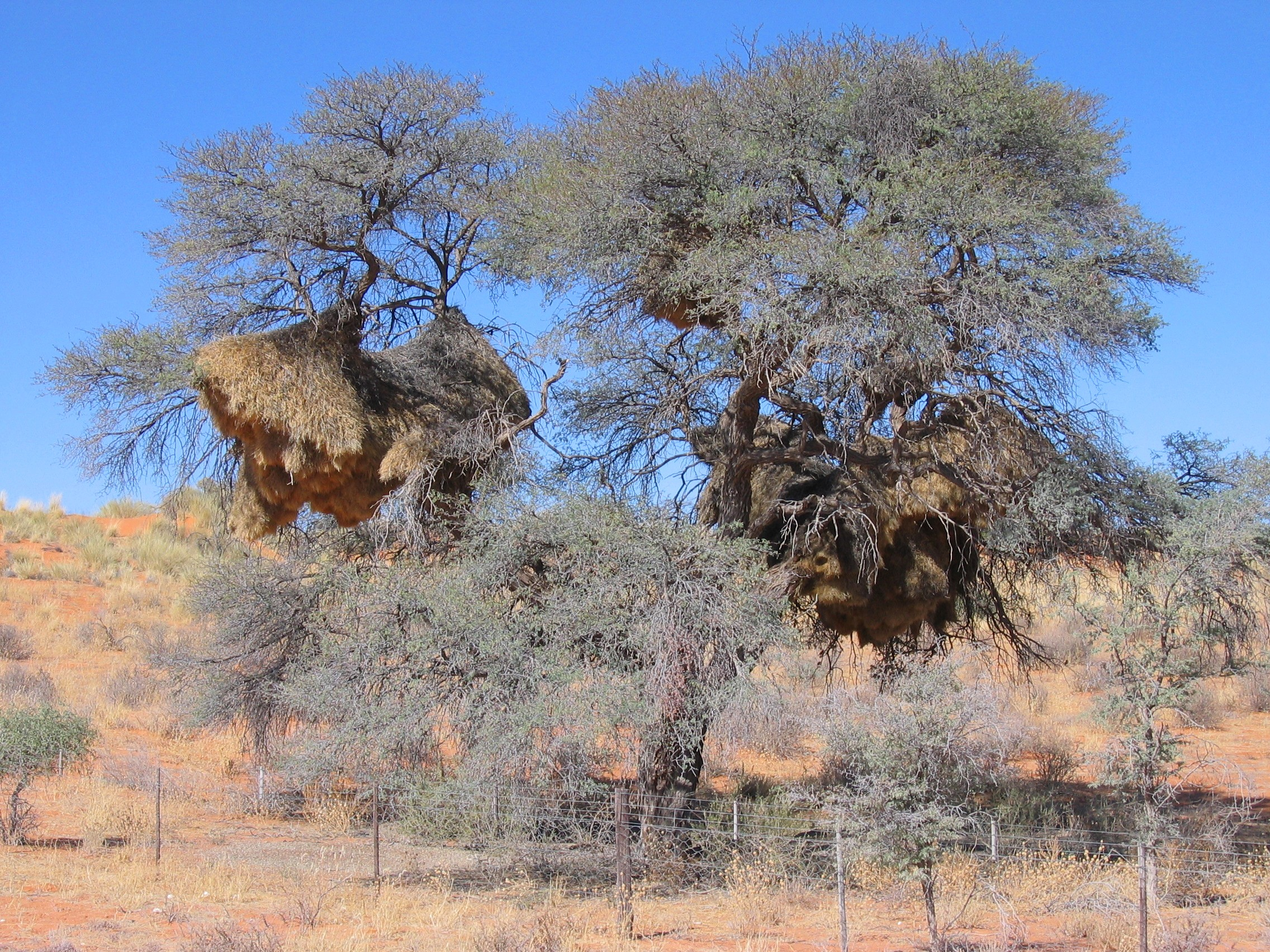 Weaverbird nest, Transkalahari highway, Namibia